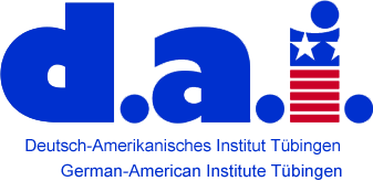 dai - German American Institute in Tübingen (Germany)